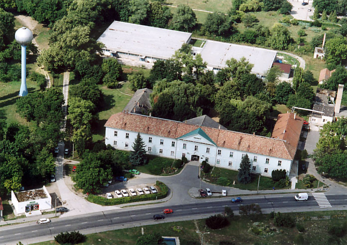 Enying - Hungary - Europe (Batthyány Mansion)